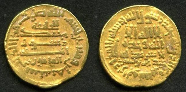 Abbasid Dinar (4.0 g, 18 mm) - Al Ma'mun - 208 AH/823 AD. The coin indicates that it was struck "li-al Khalifa al-Ma'mun" on the obverse and states the name of Ubayd Allah Ibn al-Sari, the governor of Egypt at that time, on the reverse. This coin was struck in Fustat (Egypt).